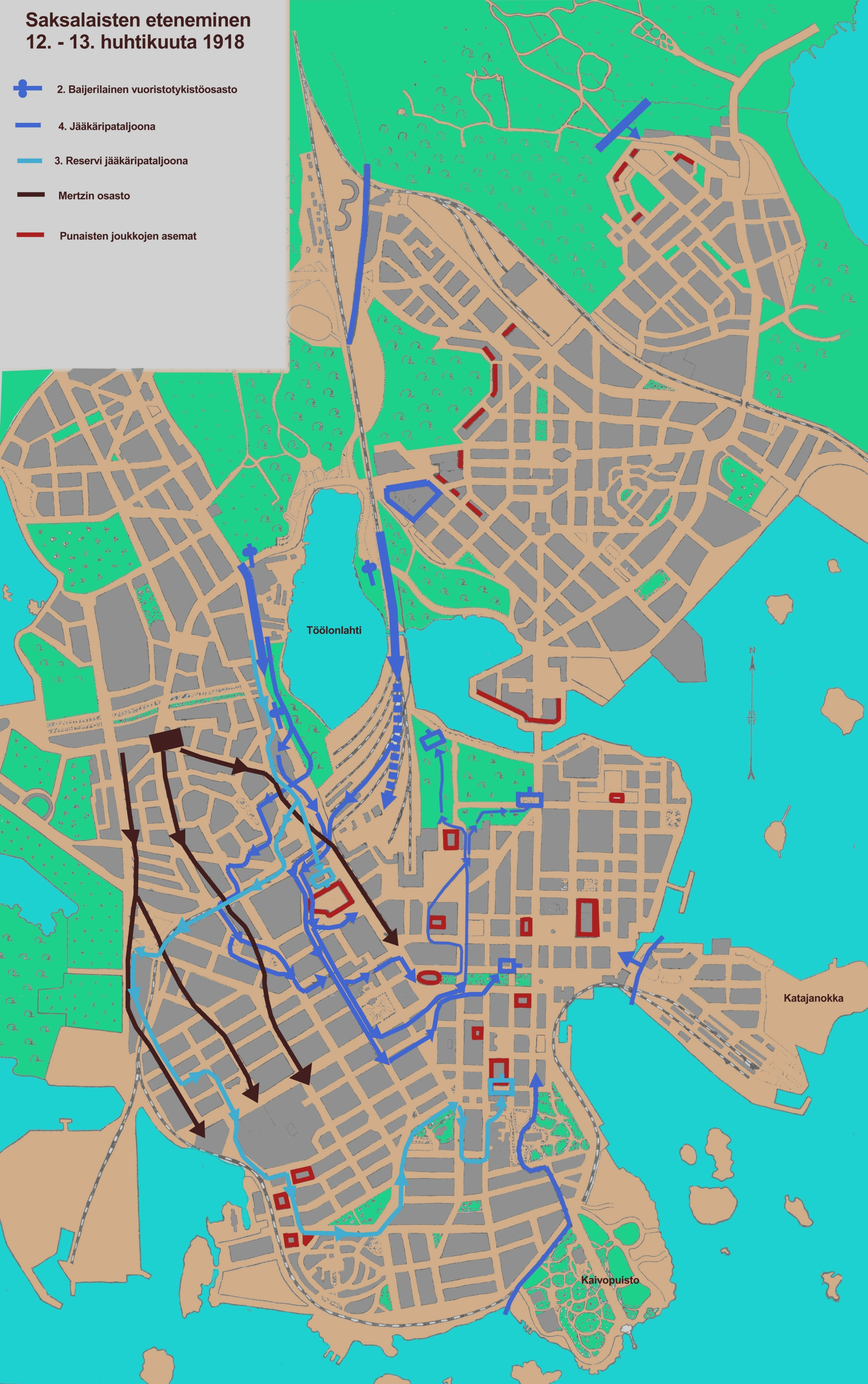 Map of the Battle of Helsinki